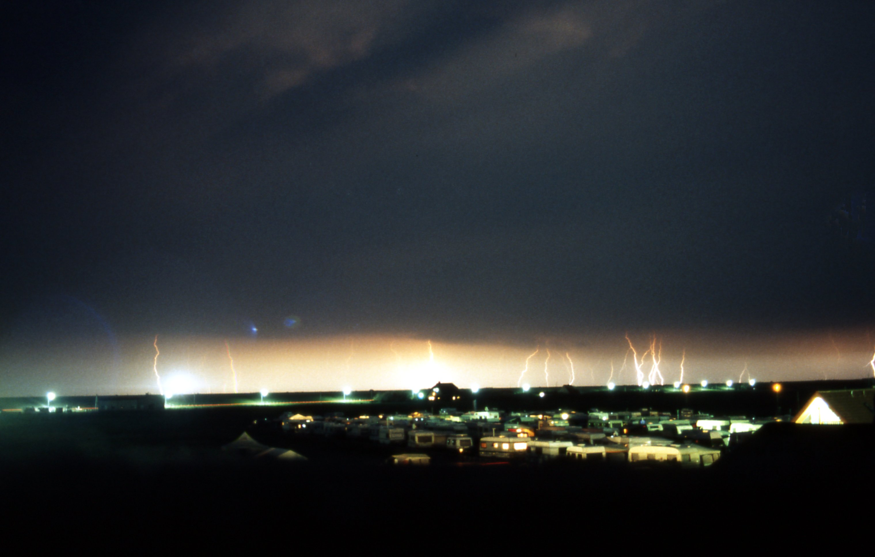 Thunderstorm at night in St. Peter-Ording, Germany 05/1997 by Matthias Prinke